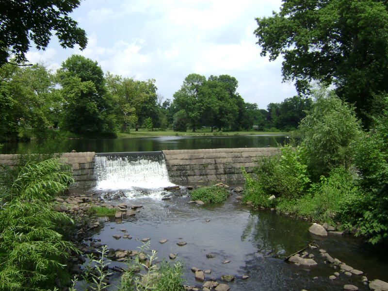 Arnold's Pond seen in Goffle Brook Park, Hawthorne during the middle of summer, 2009.